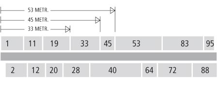 Diagram showing a kind of house numbering